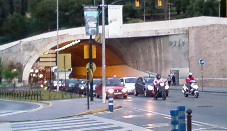 Tunnel under the Alcazaba (Muslim citadel) in Málaga, Spain